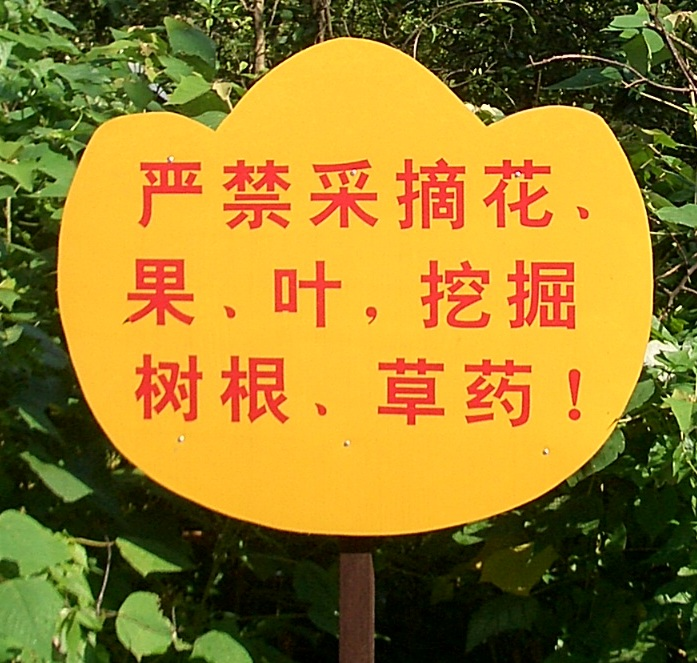 In the mountain park on Yeli Island, Zhuhai. The sign prohibits picking flowers, fruit, leaves, and digging out roots and medicinal plants